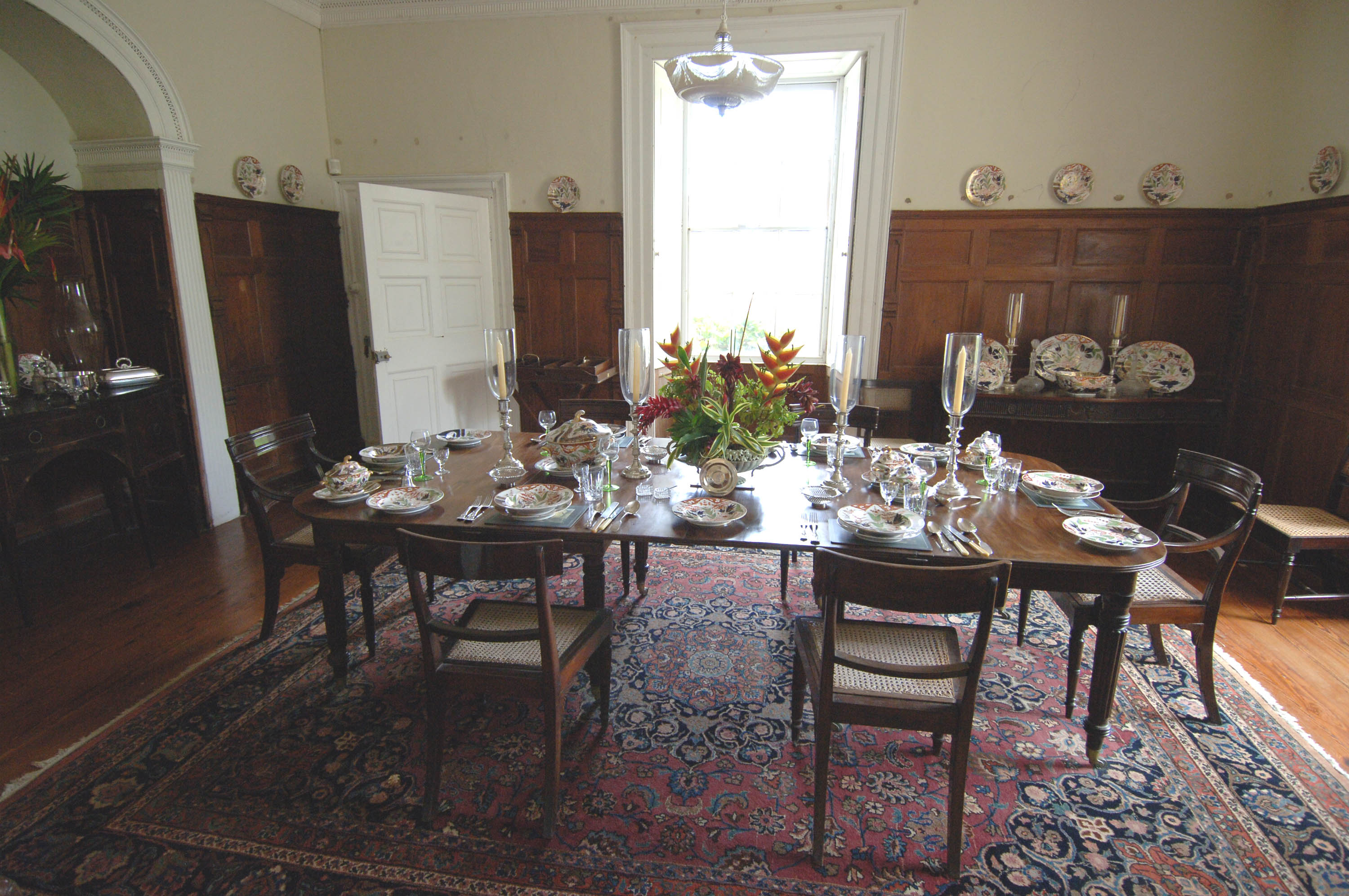 PLANTATION ESTABLISHED IN 1660S; JACOBEAN STYLE WITH DUTCH GABLES. ONE OF THE 3 GENUINE JACOBEAN MANSIONS IN THE WESTERN HEMISPHERE